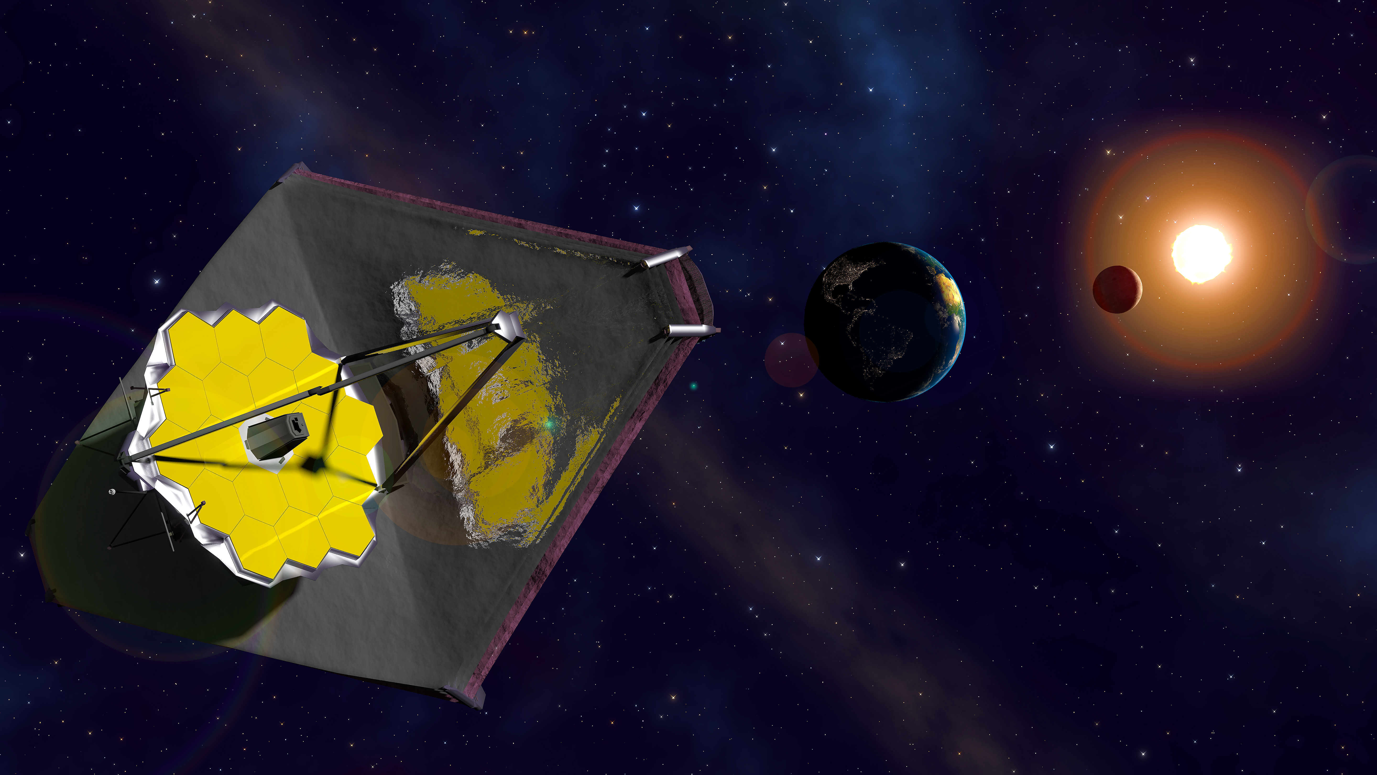 Rendered in the existing scene I had for the Earth and Mars. Using Blender 2.71 with Cycles. Post processing in Photoshop.